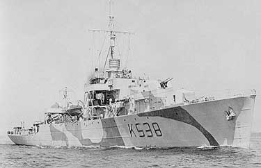 HMCS Toronto K538 WW2 River Class Frigate